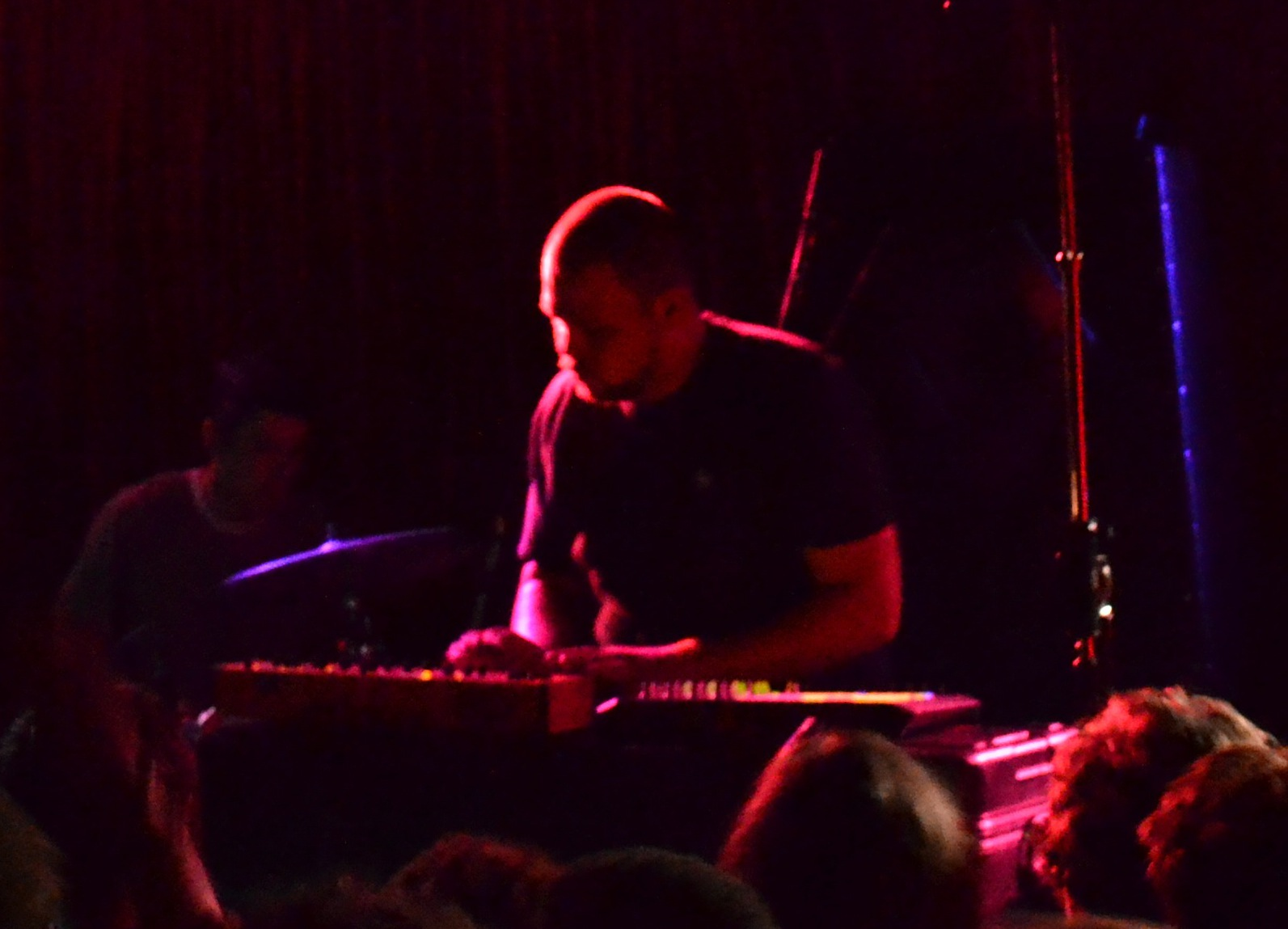 Com Truise opening for Neon Indian at the Grog Shop in Cleveland Heights, OH